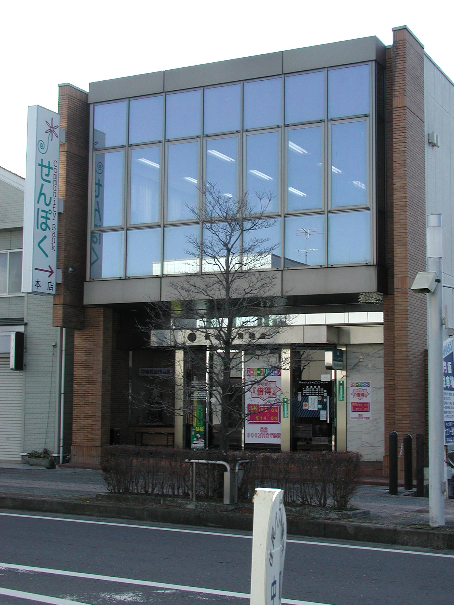 The Senpoku Credit Cooperative Head Shops